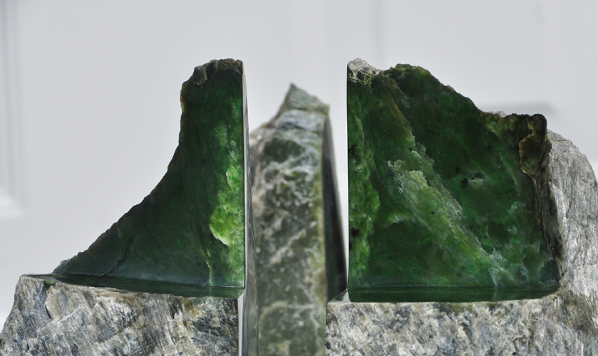 A piece of jade displayed in Jade City, British Columbia, Canada.